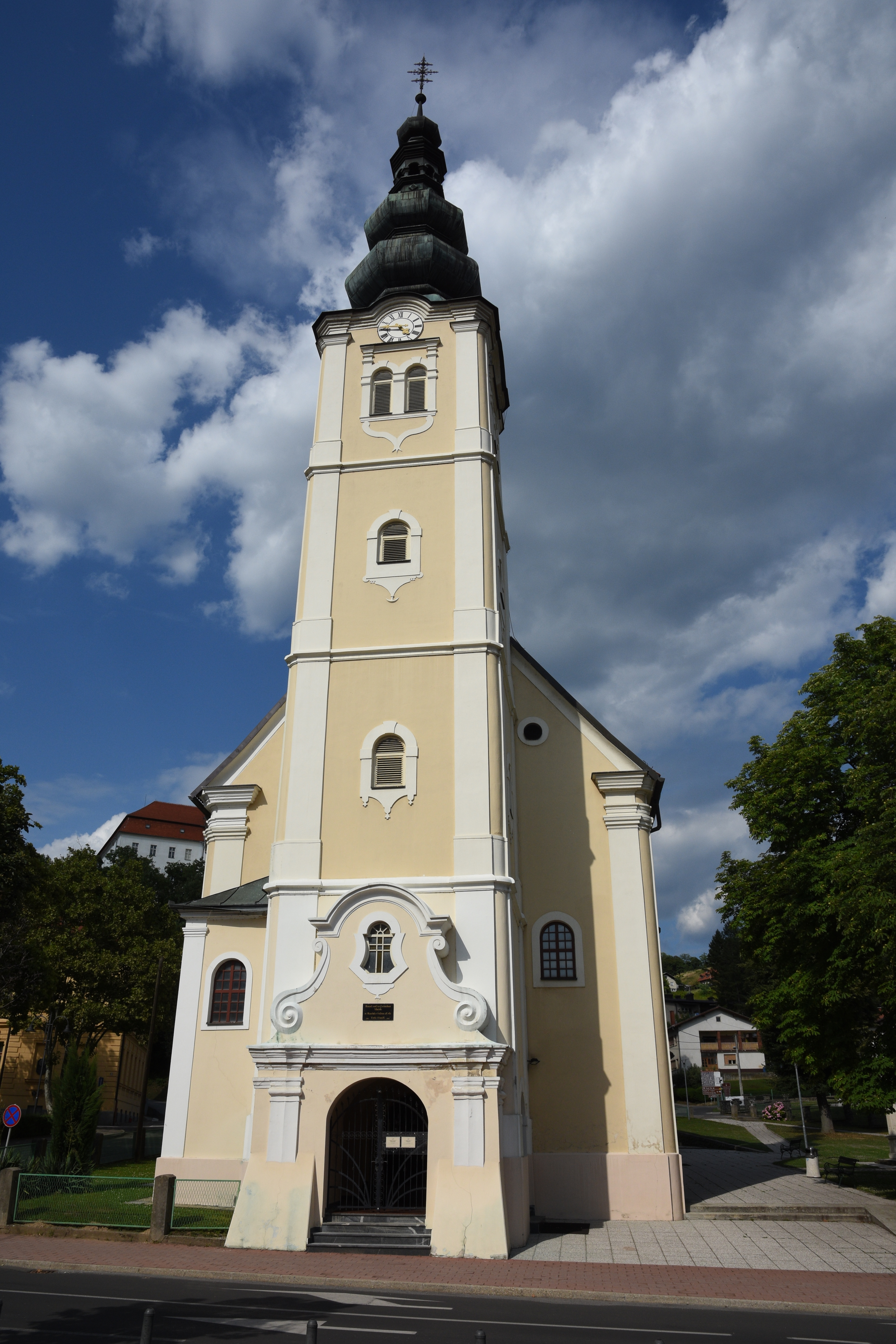 St. Catherine of Alexandria Church (Lendava)